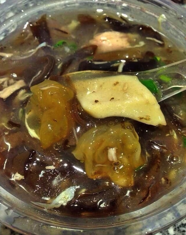 this is the street's shark's fin soup.